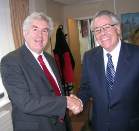 First Minister of Wales Rhodri Morgan and Ambassador Tuttle meet in Cardiff.